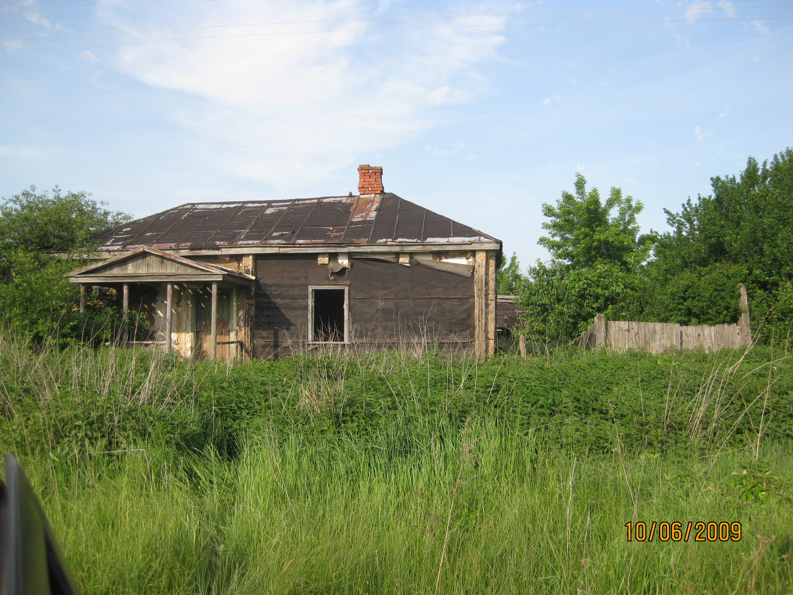 Old Toida, House on St. Lugovai